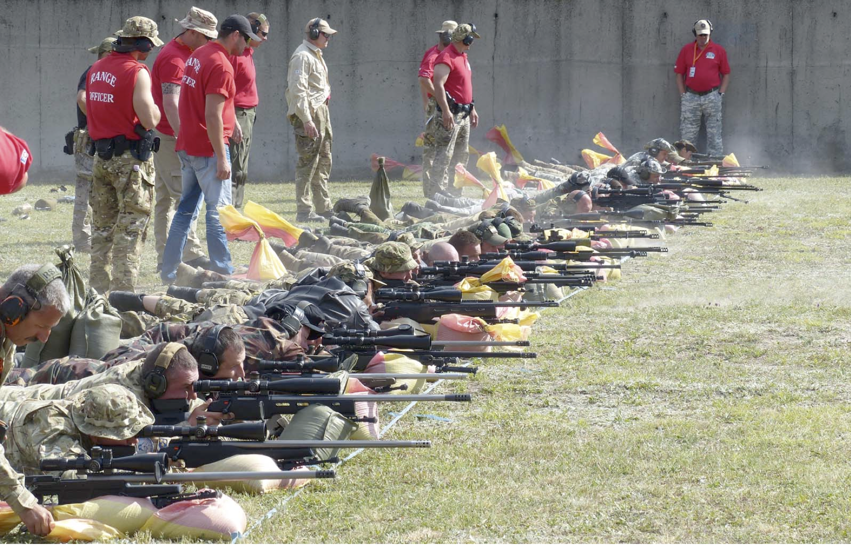 Picture of a T-Class Competition